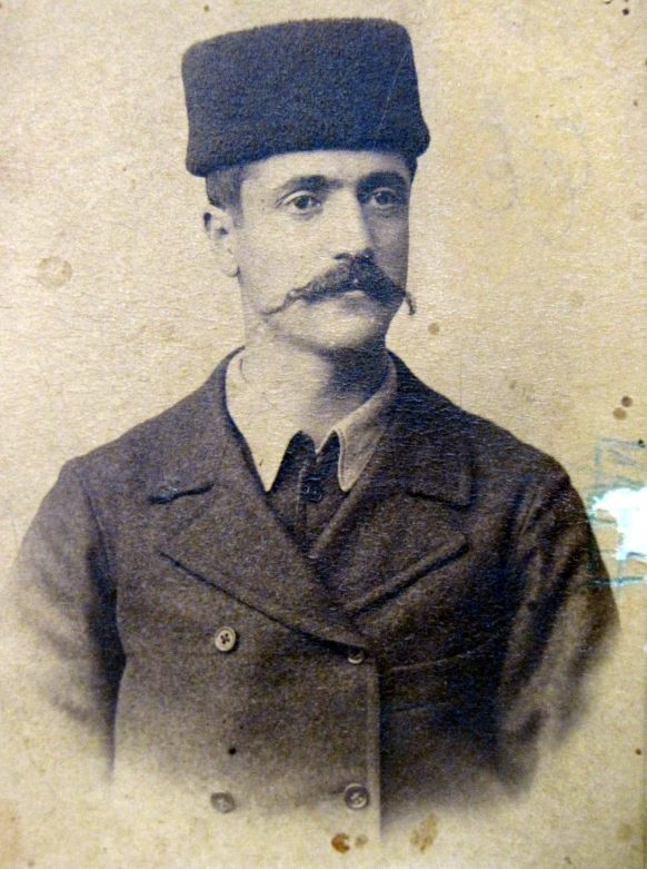 Stefan Karchev in Solun in 1888